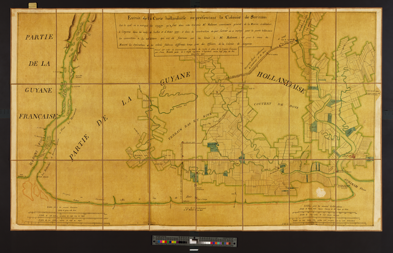 "Extract of the Dutch Map Representing the Colony of Surinam" by Simon M. Mentelle, 1777